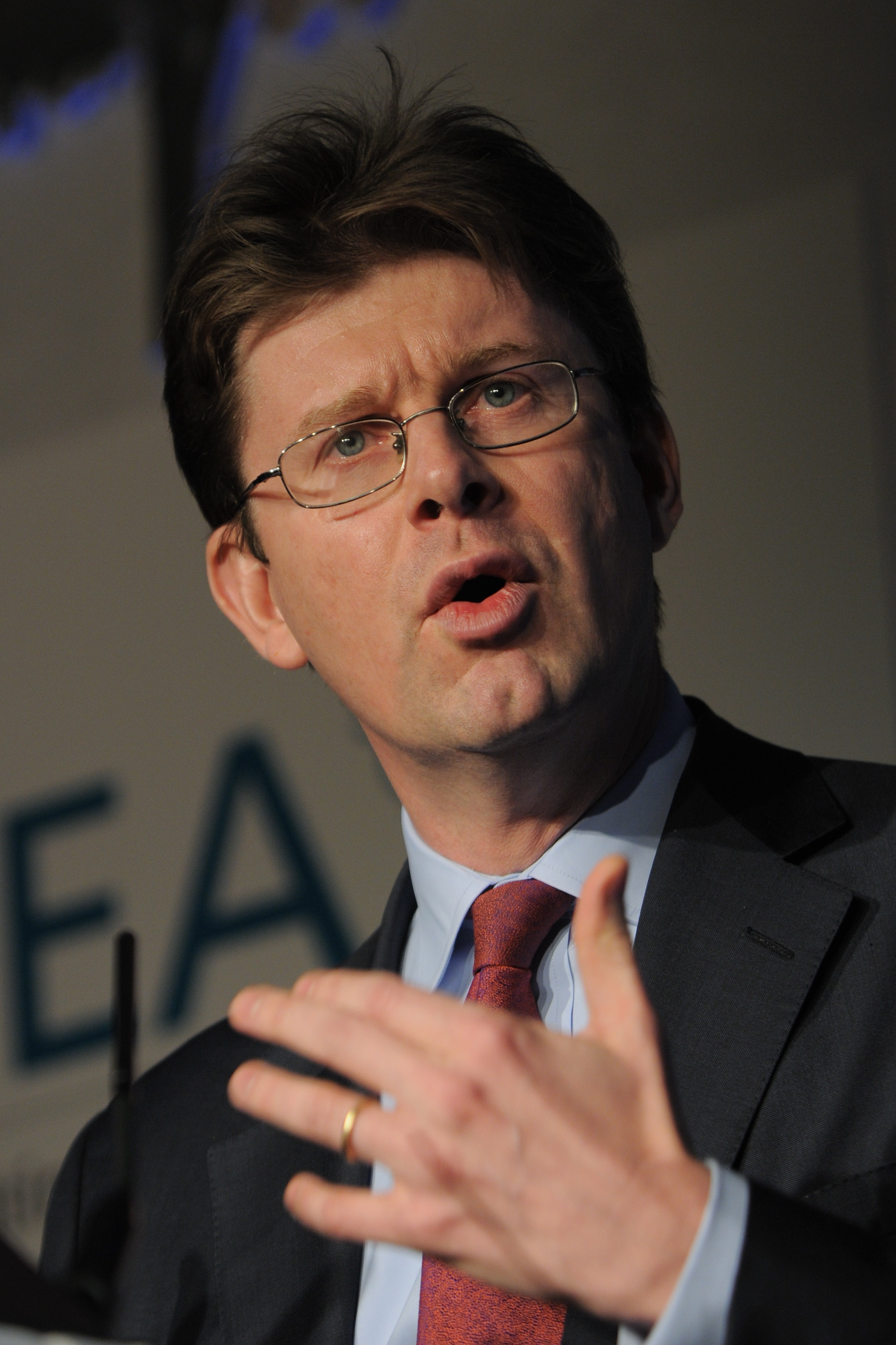 Greg Clark, British politician and Shadow Secretary of State for Energy and Climate Change, speaking at the Confederation of British Industry's Climate Change Summit 2008 at The Royal Lancaster Hotel, London.